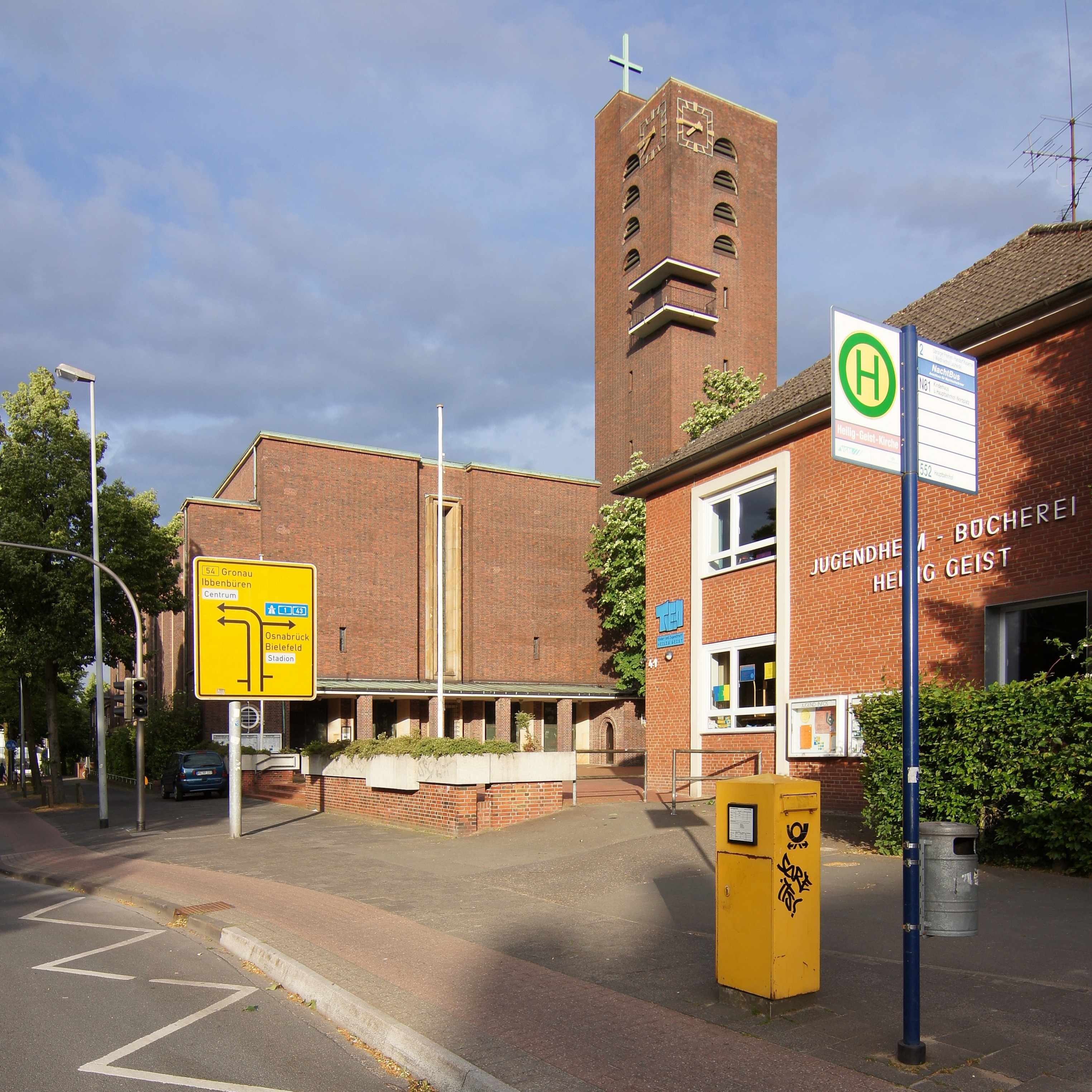 A look to the entrance and the church square of the Heiliggeistkirche (church of the holy spirit) in Münster, Northrhine-Westphalia, Germany. Architect is Walter Kremer. It ist a building of the New Objectivity.